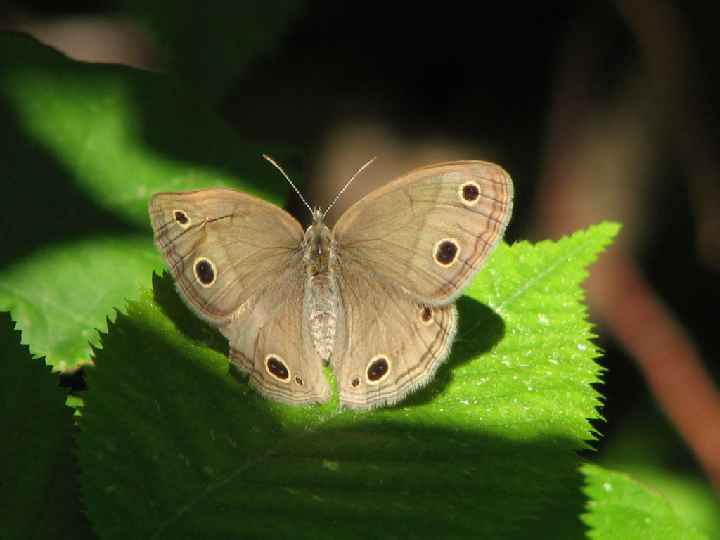 Dorsal view of a Little Wood Satyr (Megisto cymela cymela) taken along Rideau River, Ottawa, Canada